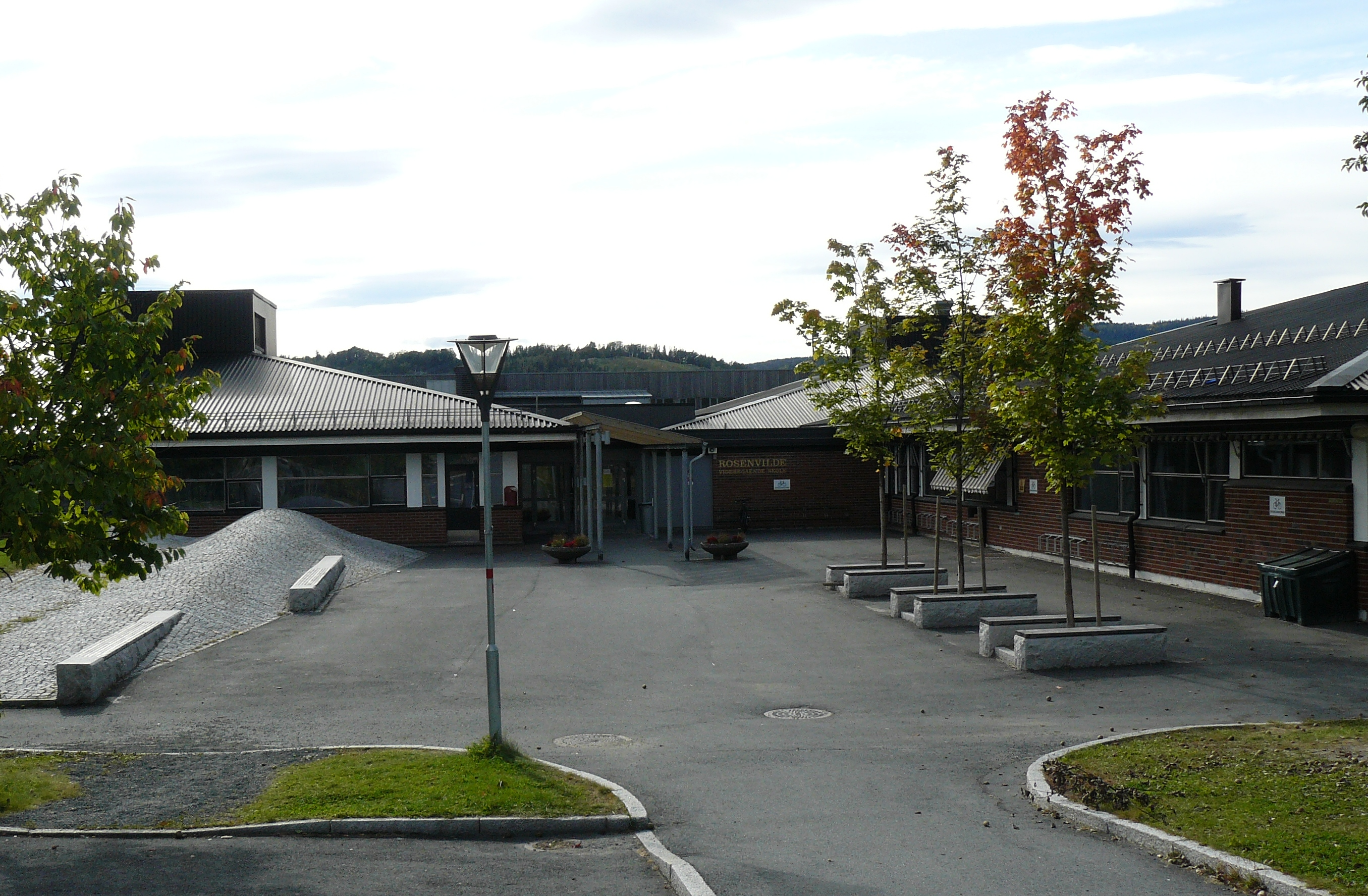 Rosenvilde high school, Bærum